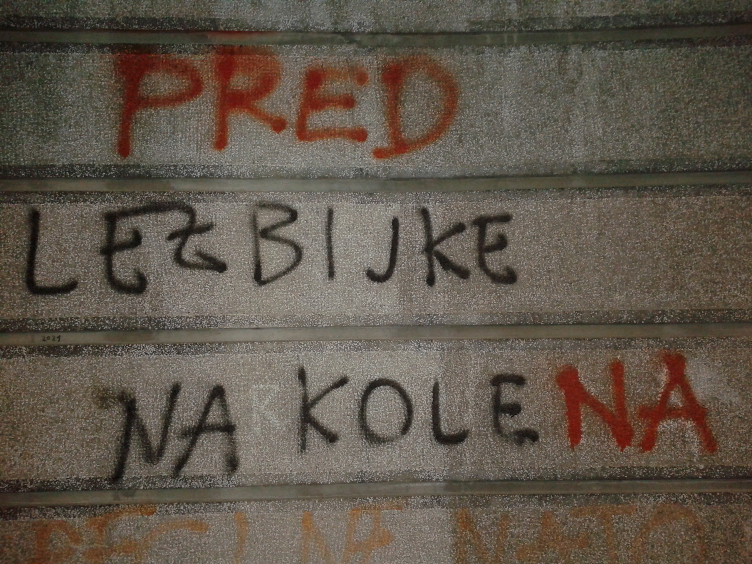 Homophobic graffiti ("Kill the lesbians") in the streets of Kranj adapted/changed into a praise to the lesbians ("Get down on your knees in front of the lesbians")